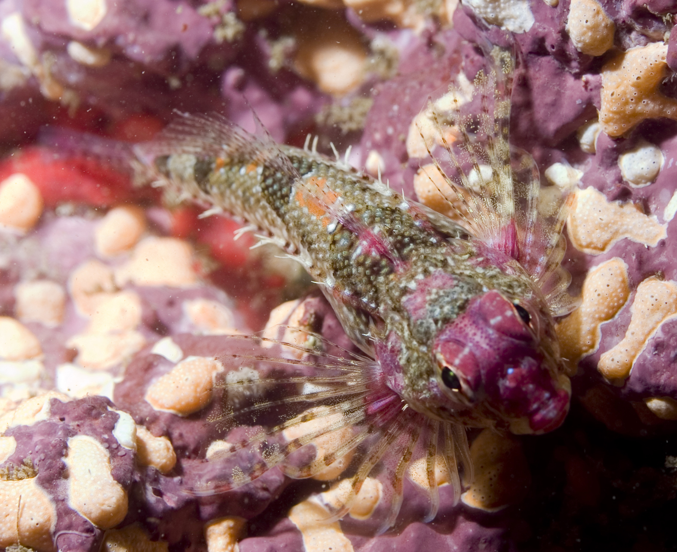 Snubnose sculpin (Orthonopias triacis) resting on its pectoral fins